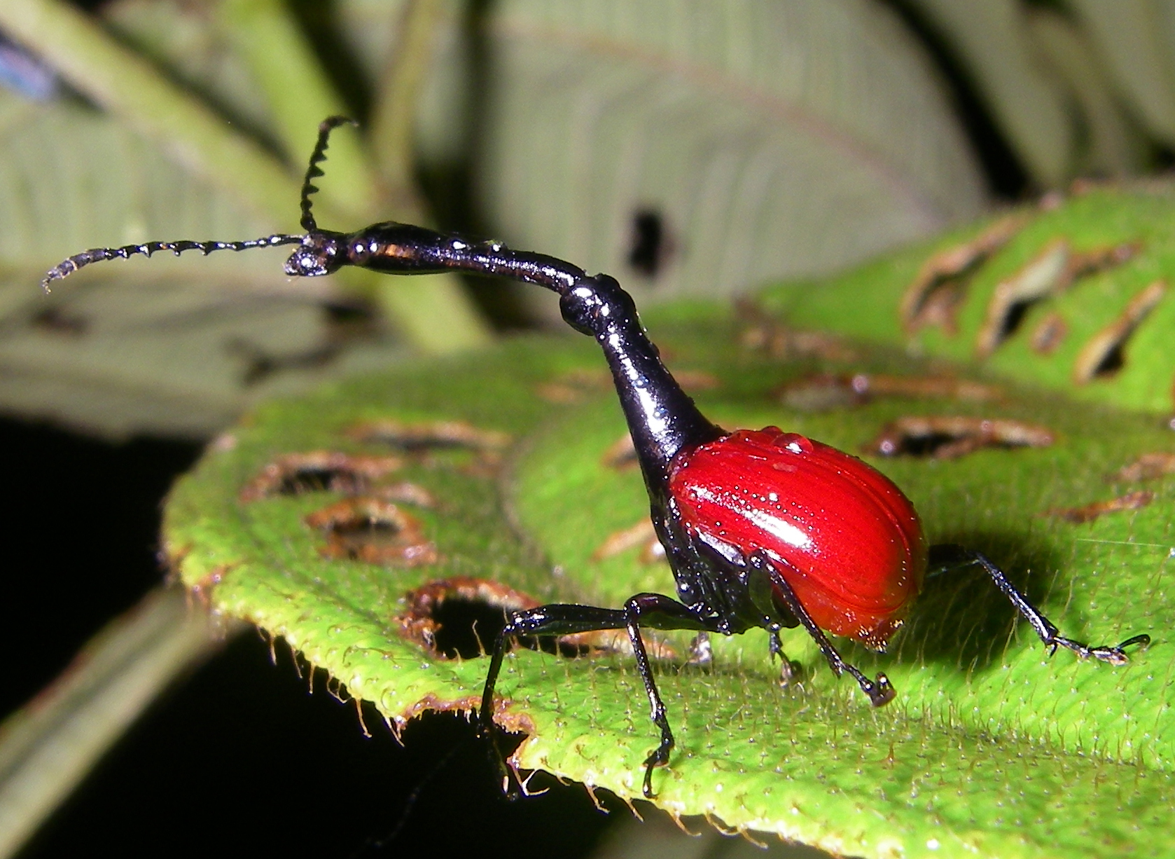 Male specimen of Trachelophorus giraffa (Attelabidae; en: Giraffe weevil); picture taken in Ranomafana National Park